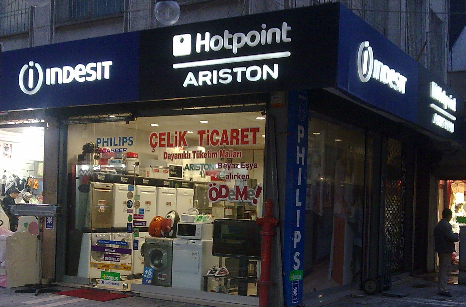 Çelik Ticaret - Hotpoint Ariston